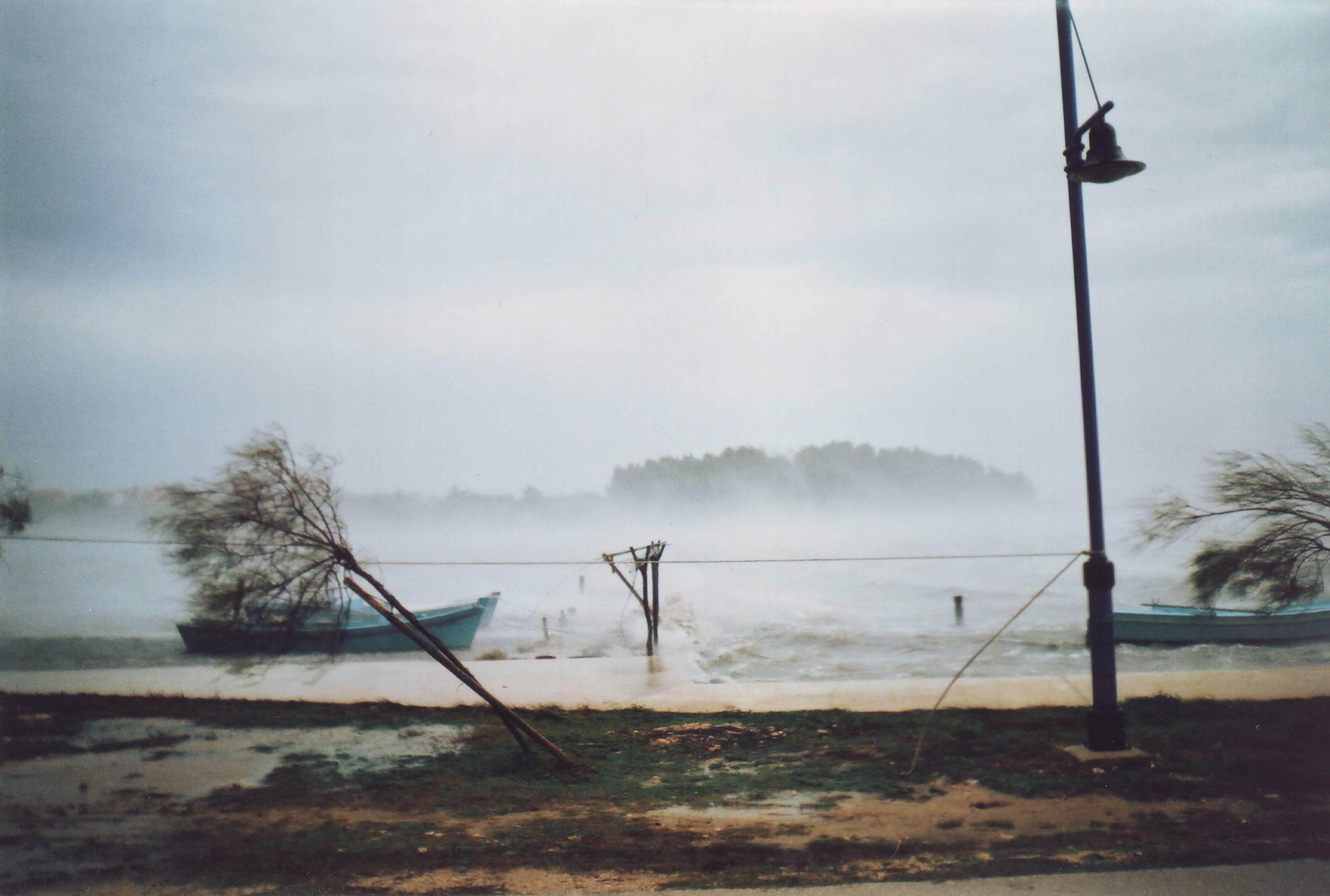 Orkan wind in Nin, bended trees and troubled sea.